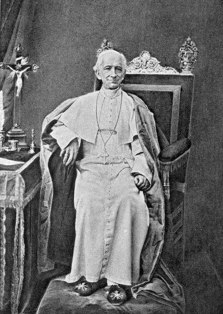 Portrait of Pope Leo XIII.